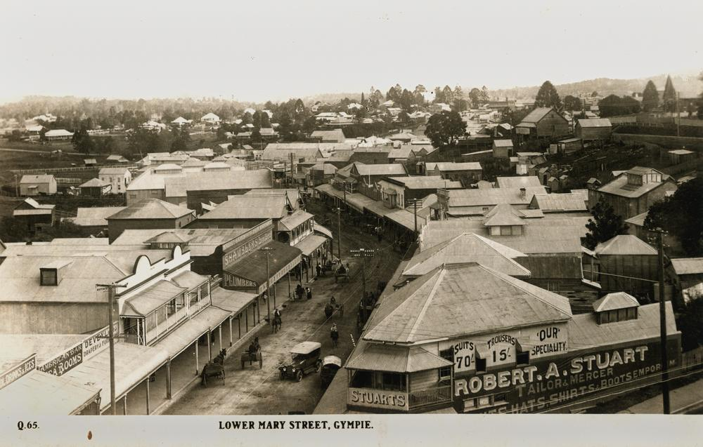 View of Gympie's streets, ca. 1925. Looking across the rooftops of the centre of Gympie.This photograph is an original Murray postcard, no.Q.65.